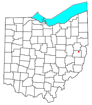 Locator map of the unincorporated community of New Rumley in Harrison County, Ohio, United States.